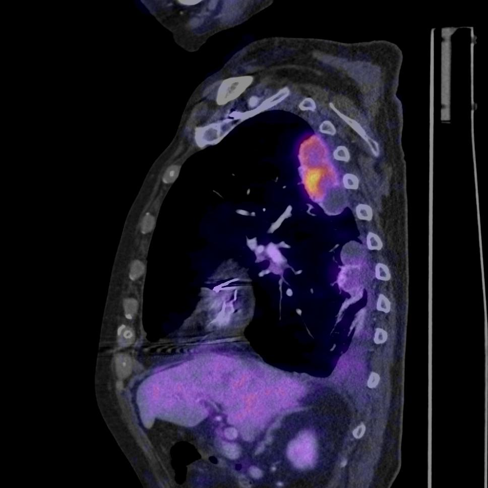 PET/CT image